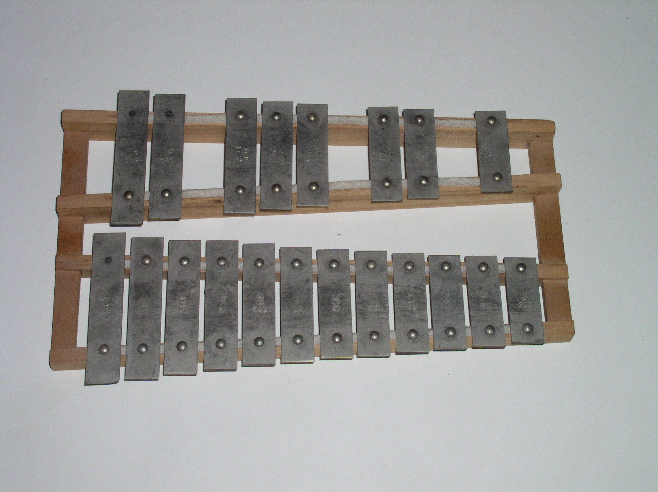 Description: Simple Glockenspiel Source: Own picture